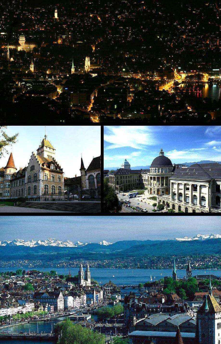 Montage for the Zürich article on Wikipedia.